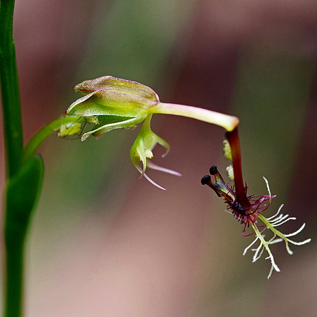 Arthrochilus huntianus in Lerderderg State Park